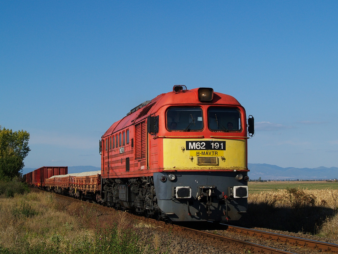 A regional freight train with the MÁV-TR M62 191 near Jászárokszállás, Hungary.